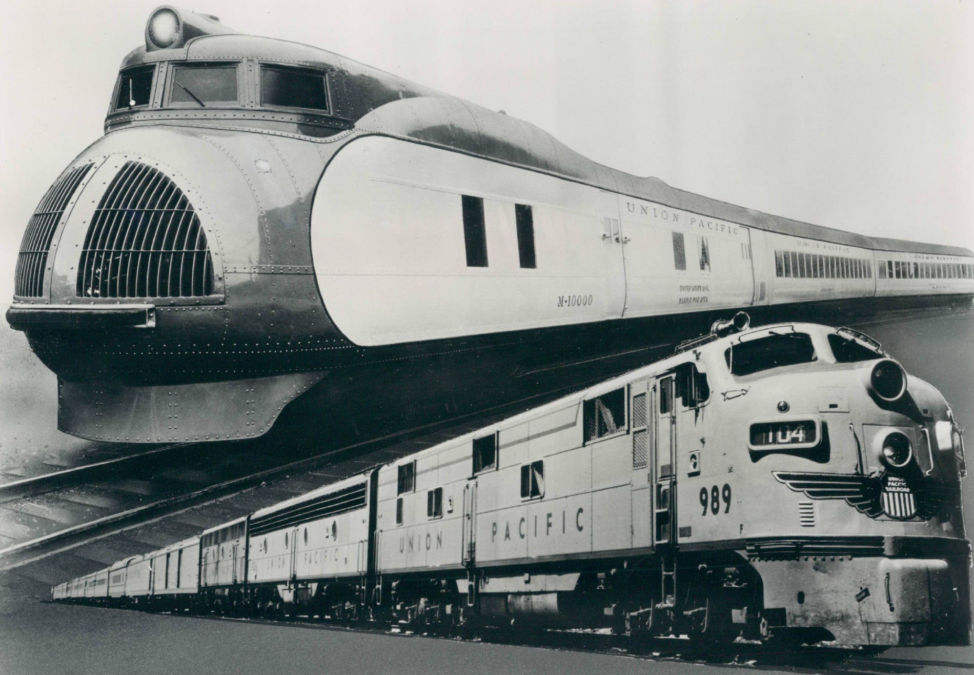 Photo of the first streamlined train from 1934-"The City of Salina" at top with a photo of "The City of Los Angeles" (going eastbound by the train number). The combination photo was issued by the Union Pacific Railroad to mark the 19th anniversary of the first streamlined train (The City of Salina) and to promote their latest streamlined passenger trains.